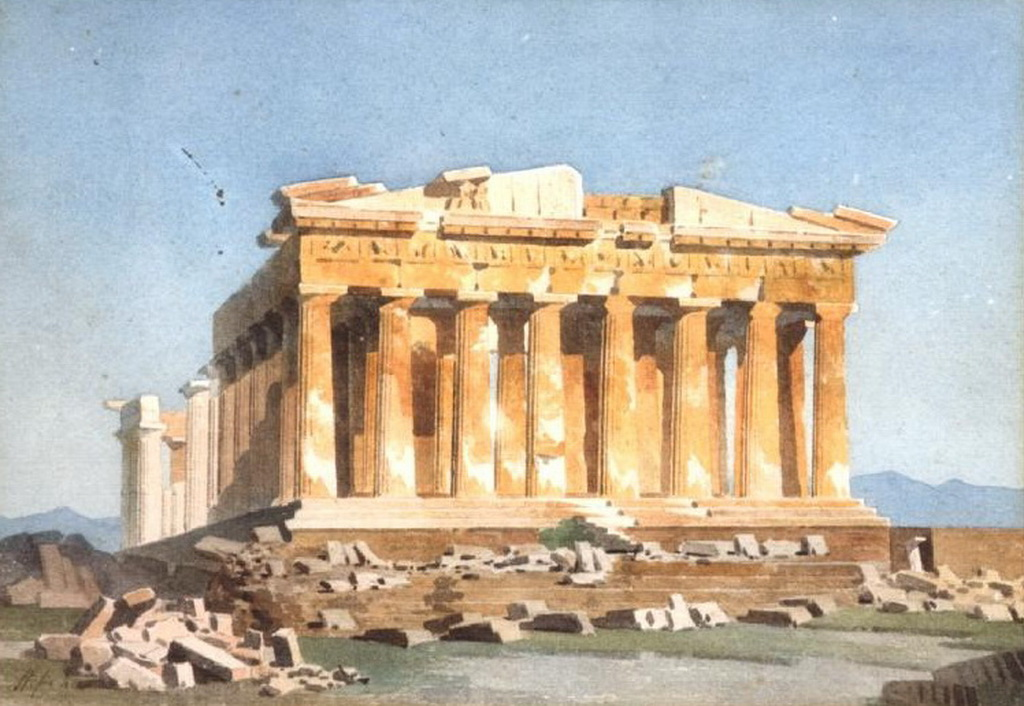 Parthenon